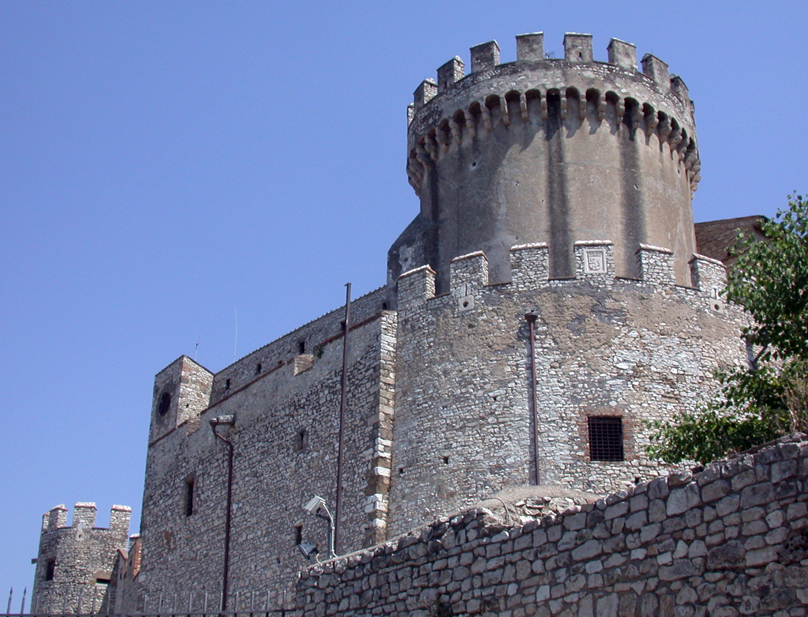 Castello Orsini in Nerola (provincia di Roma, Latium, Italy). Personal photo (june 2005) by MM in it.wiki